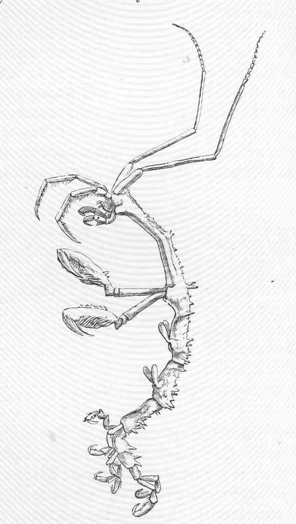 Caprella spinosissima, Norman Subject: Caprellidae, Caprella Tag: Invertebrates